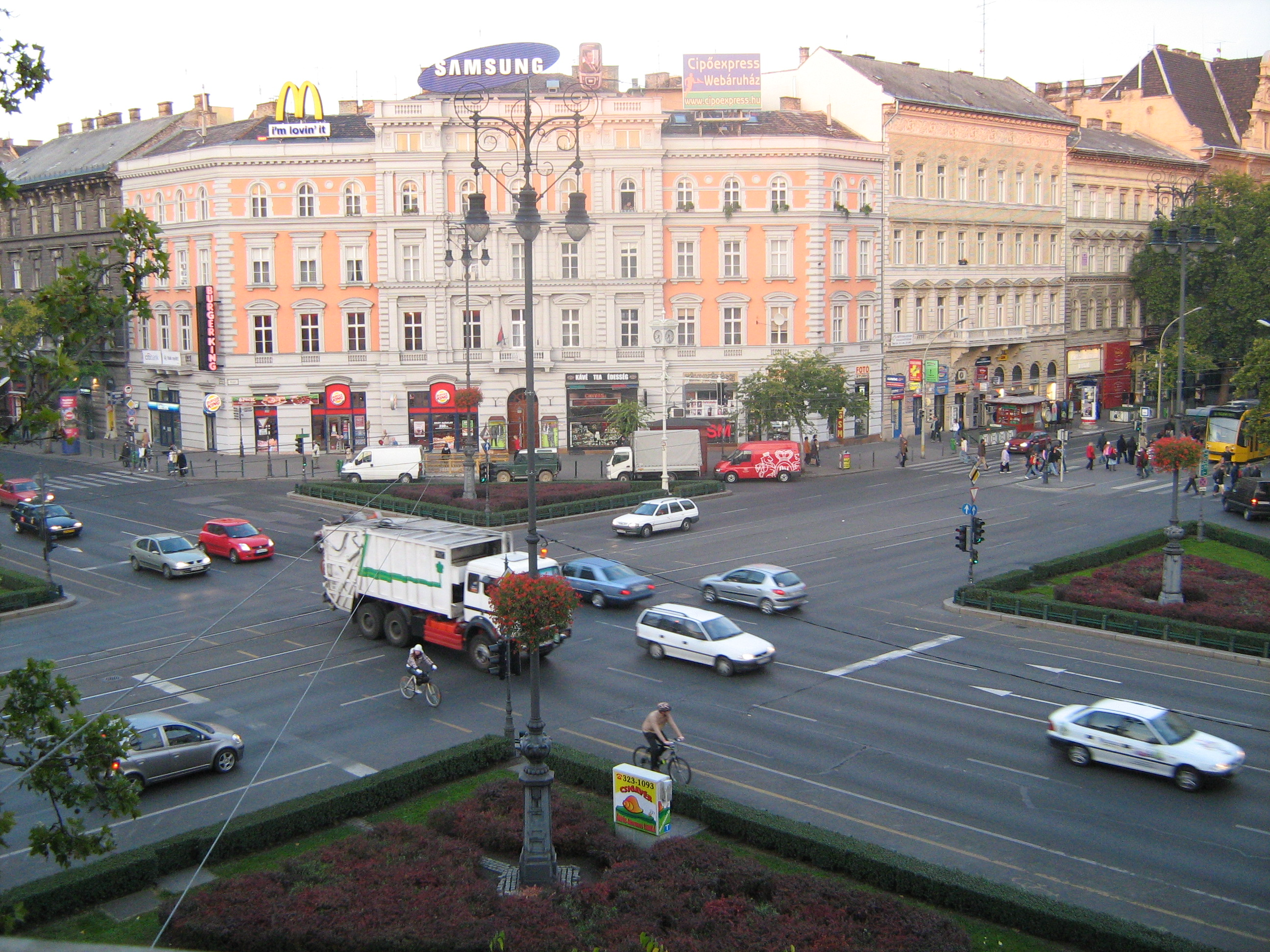 Oktogon as seen from Oktogon tér 3.